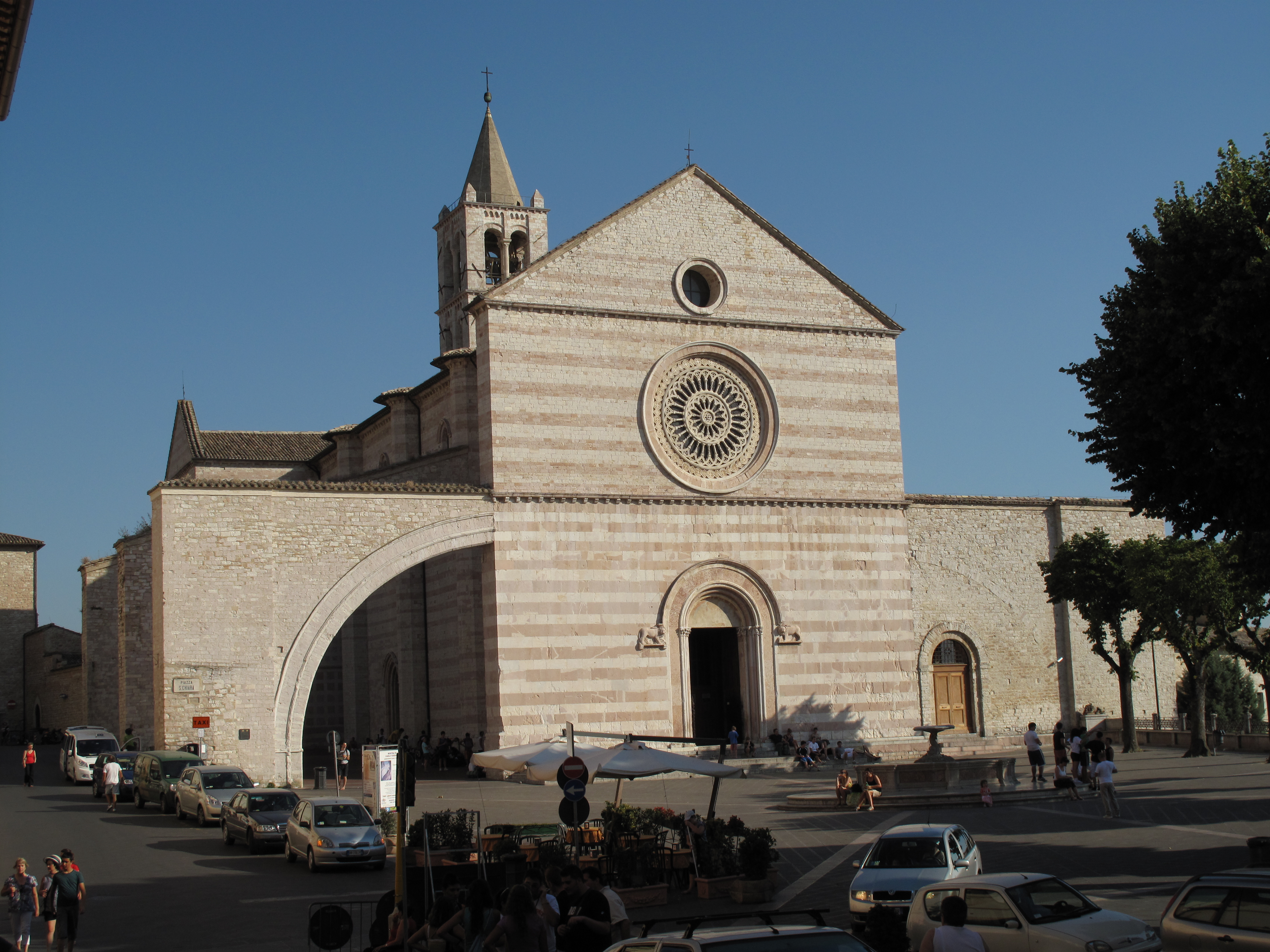 Assisi, Italy.